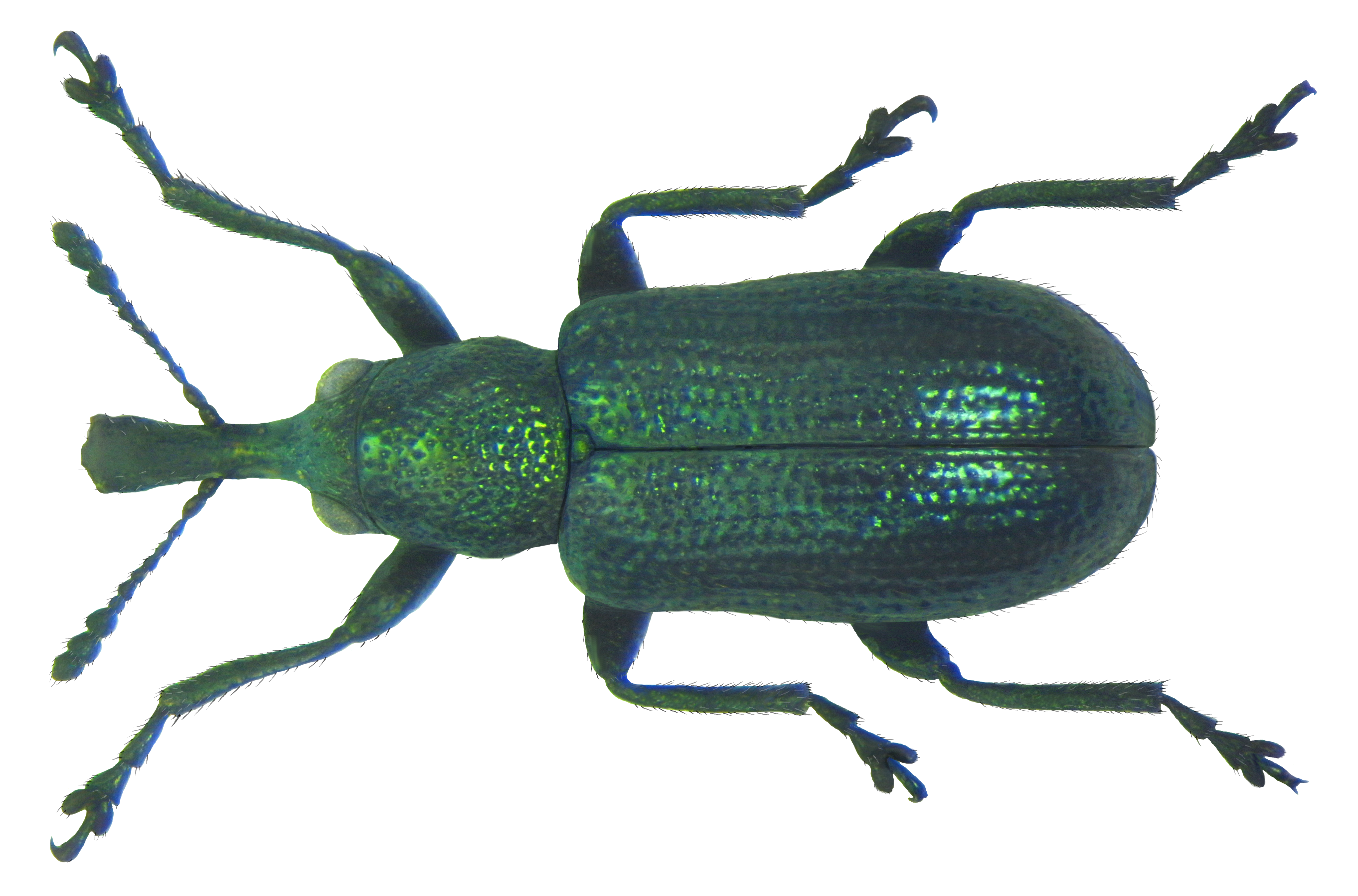 Family: Rhynchitidae Size: 1,8-2,8 mm Origin: from Siberia across the whole of Europa Ecology: an Alnus-, Betula- und Salix-species Location: England, Crowthorne leg.det. P.Harwood, 22.VIII.1909 Coll. Museum Oxford Photo: U.Schmidt, 2012